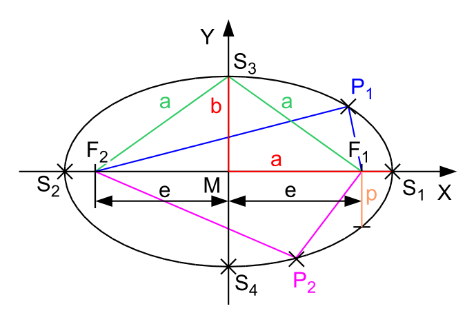 Characteristical parameters of an ellipse.